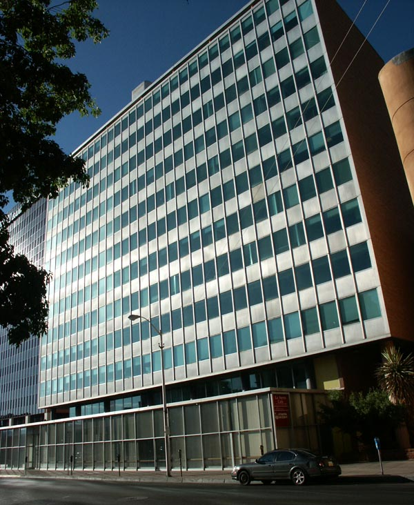 The Simms Building in downtown Albuquerque, New Mexico, USA. Photo by User:camerafiend.